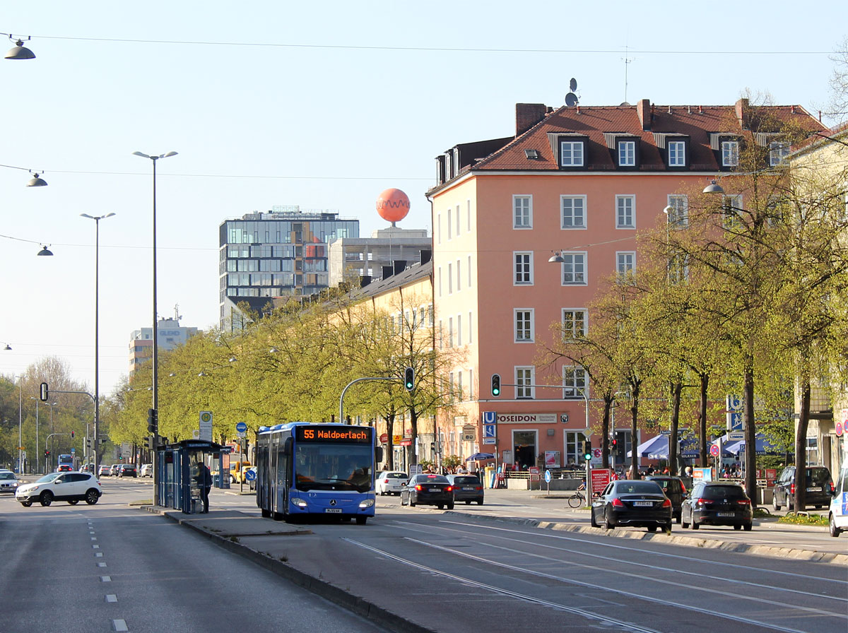 Karl-Preis-Platz in Munich in April 2017.